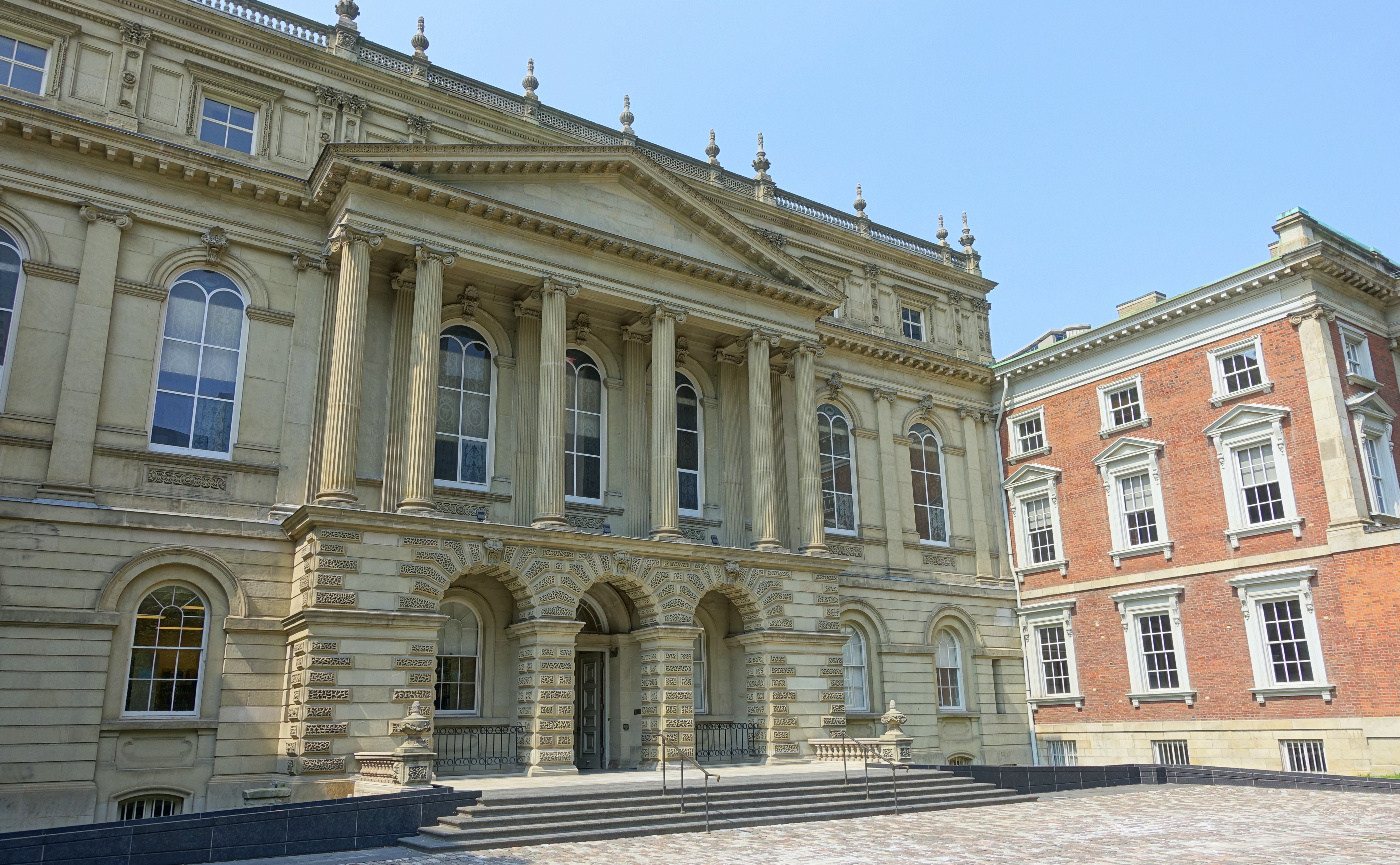 Exterior view, Osgoode Hall - Toronto, Ontario, Canada.